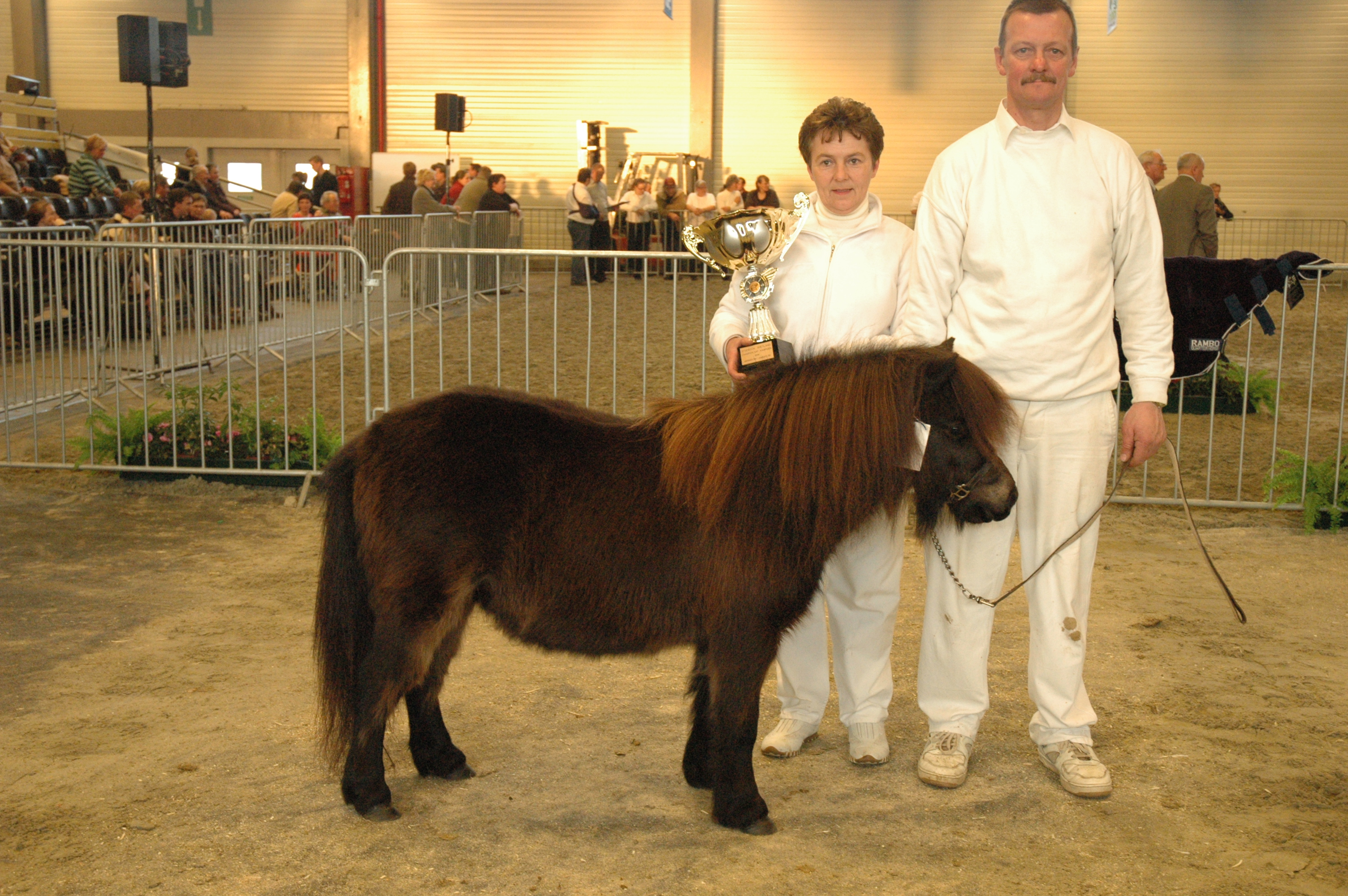 Shetlandpony at the Shetland pony prijskamp - Agriflanders 2009